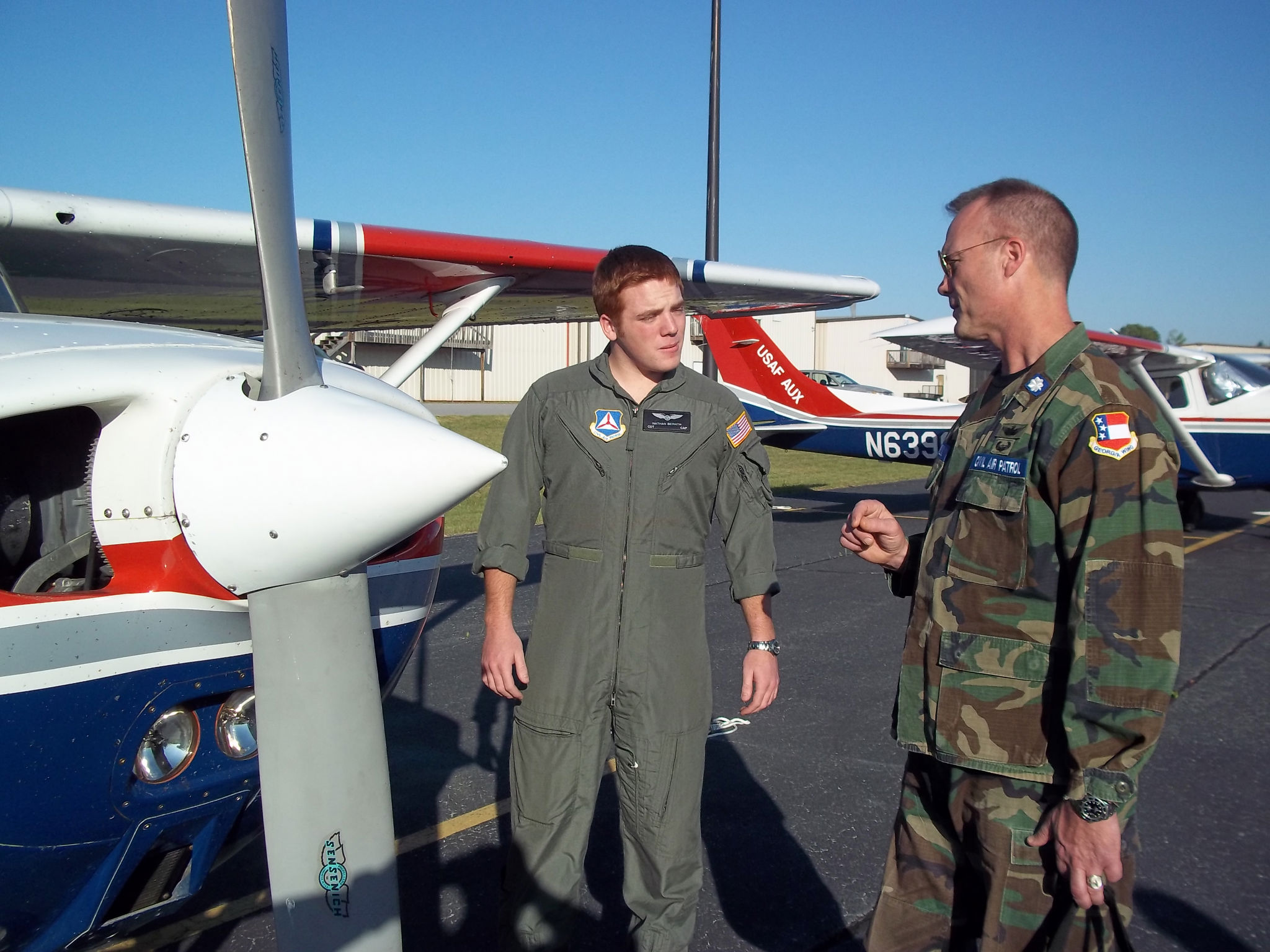 Cap. Cadet 2d Lt Nathan Bernth & Col. Brent Bracewell (in the BDU uniform of a CAP Lt. Col.)